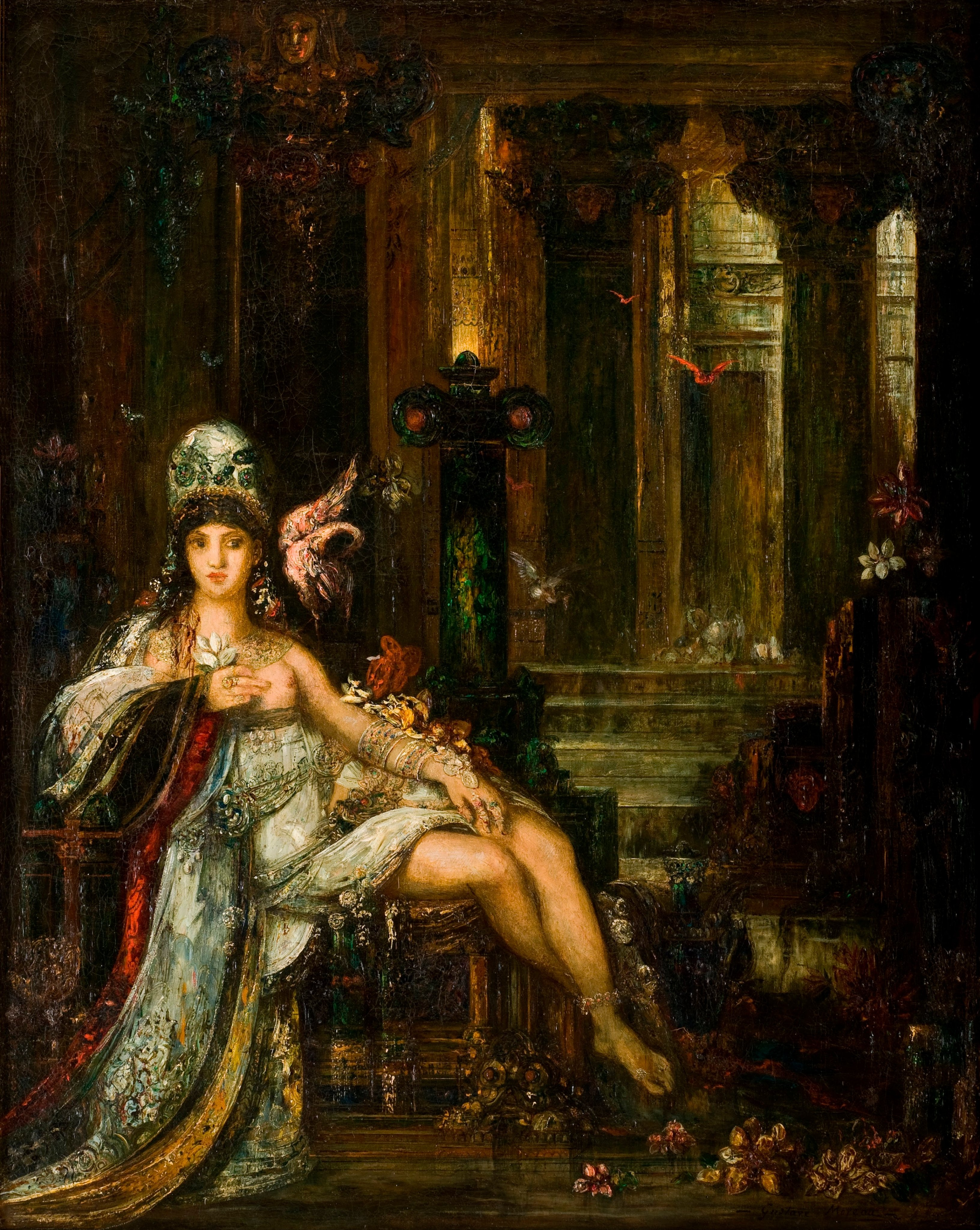 Painting of Delilah by Gustave Moreau